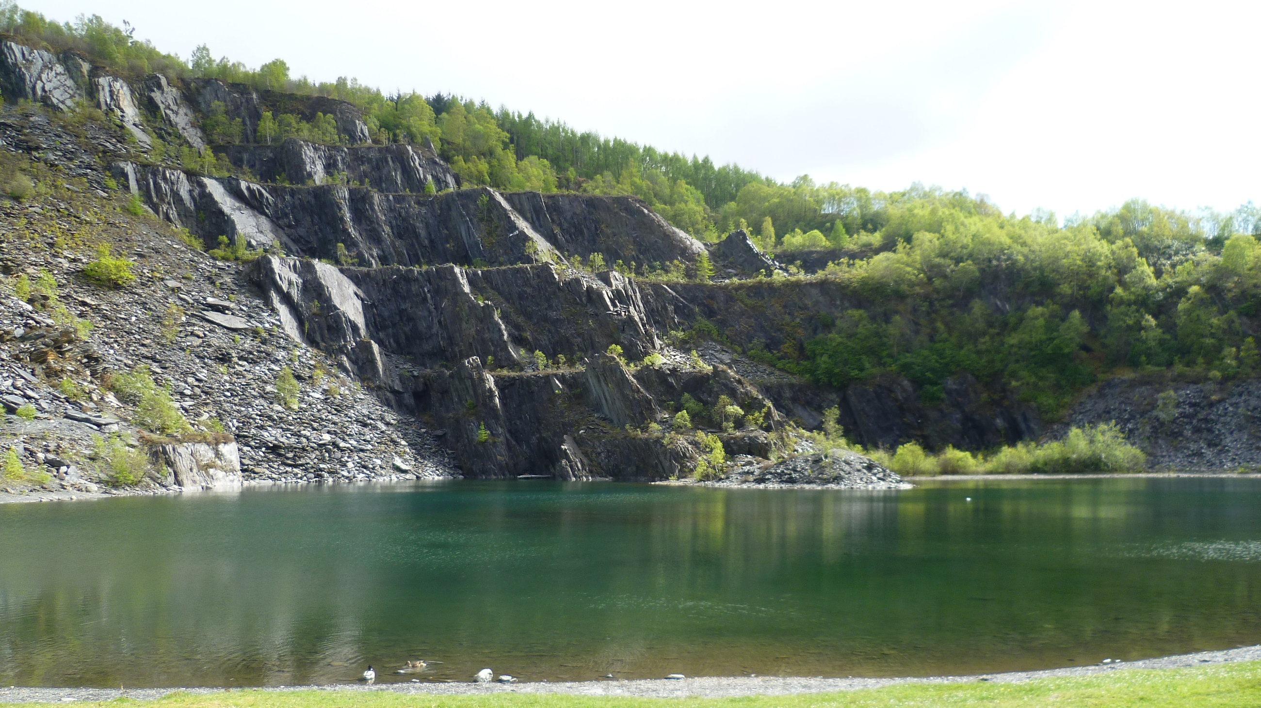 The quarry opened two years after the infamous 'Glencoe Massacre' of 1692. It expanded rapidly in the 19th century, supplying most of the roof slates for Scotland's growing industrial towns. In 1845 some 26 million slates were produced. The Glasgow architect Charles Rennie Mackintosh used Ballachulish slate in many of his buildings.